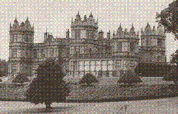 Mentmore, Buckinghamshire